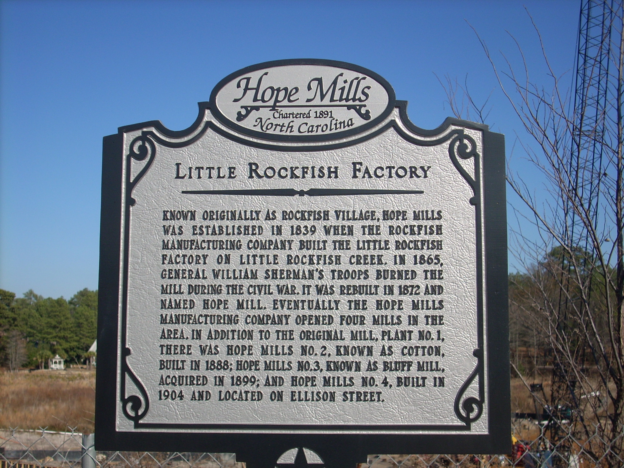 Historical Marker along Hope Mills Lake